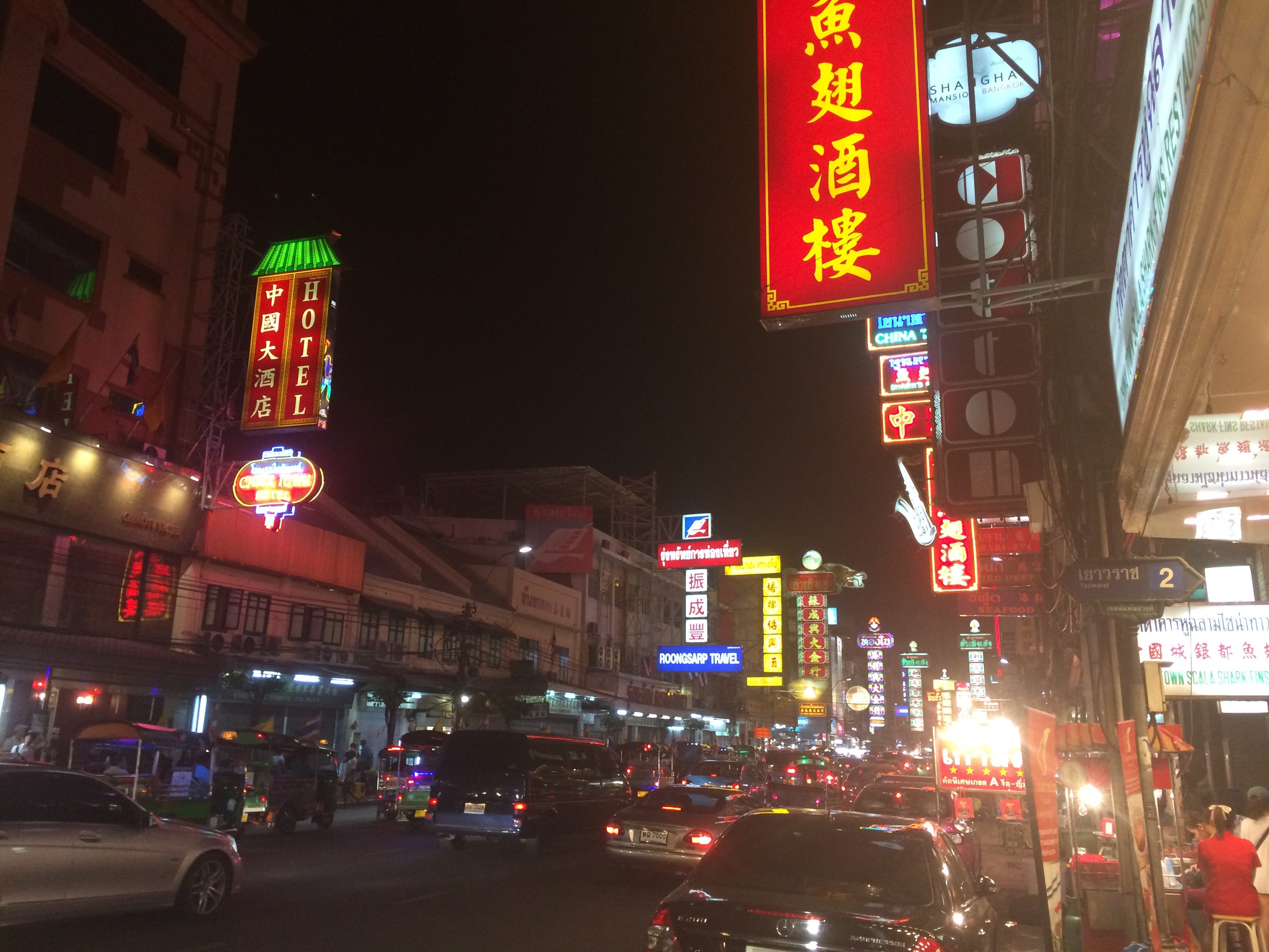 night